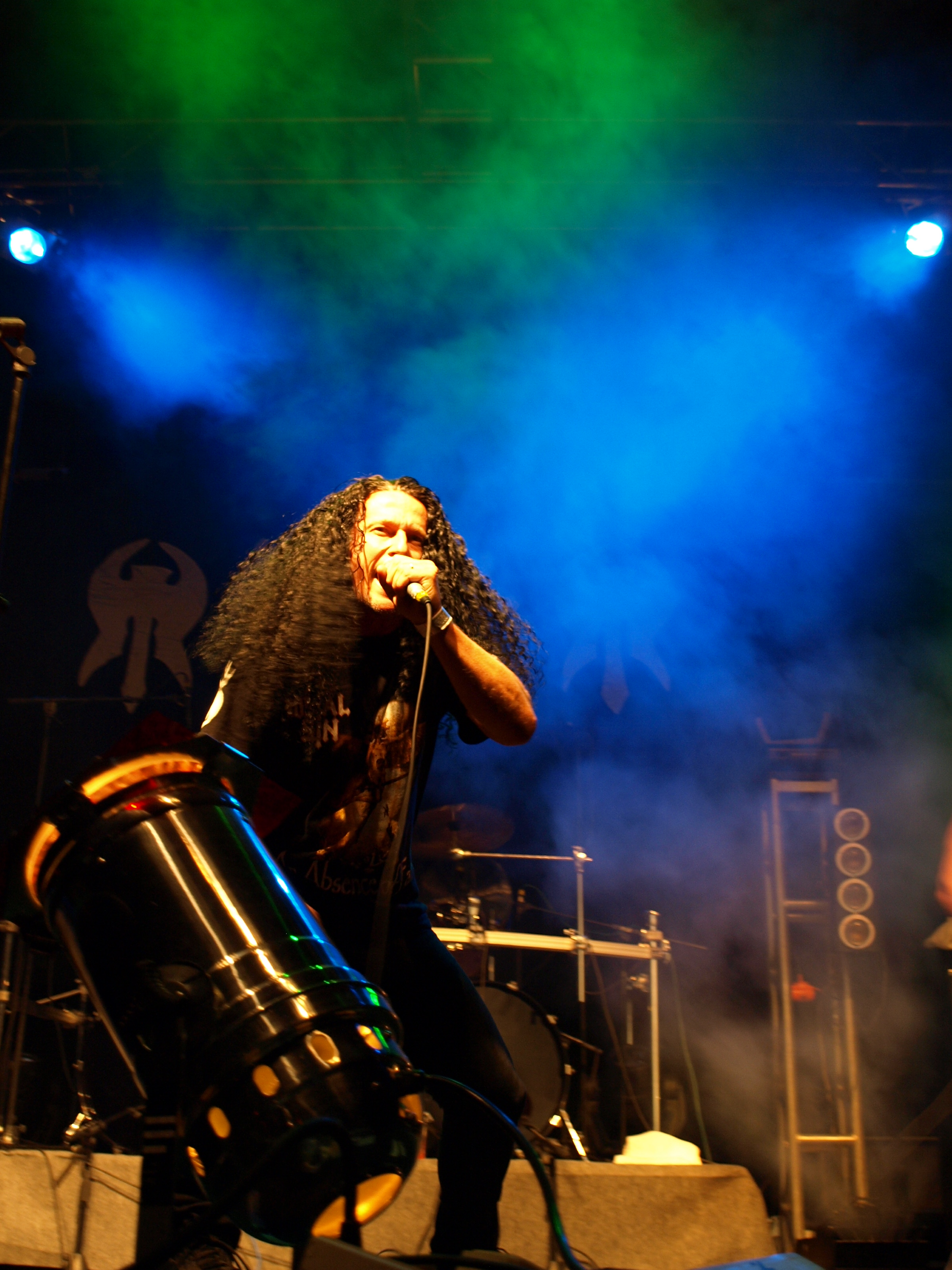 Australian Thrash metal band Mortal Sin live at Jalometalli 2008 in Oulu.